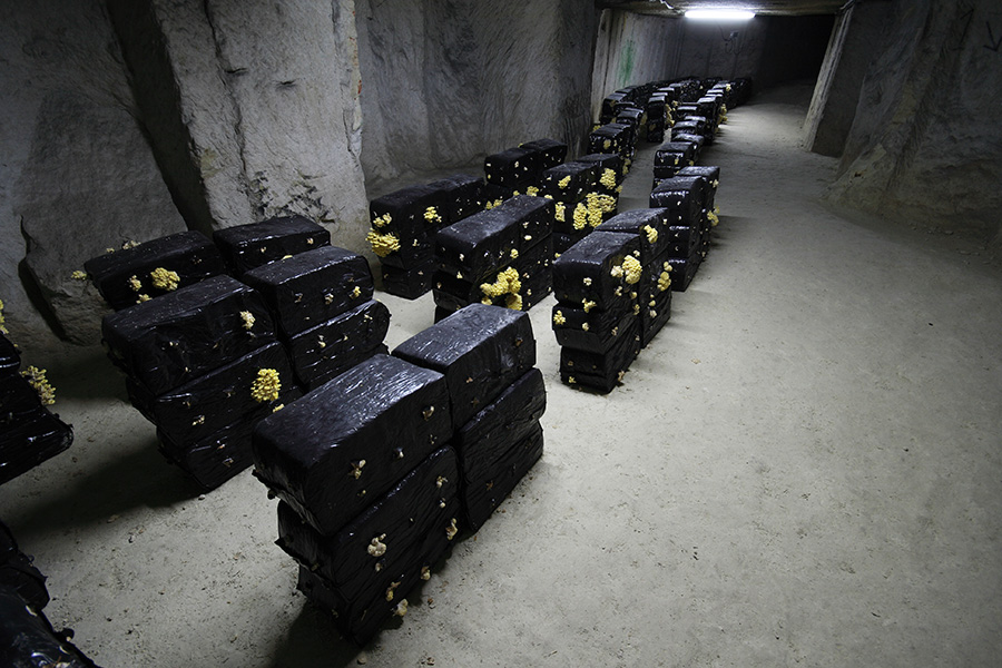 Mushrooms culture in an underground quarry